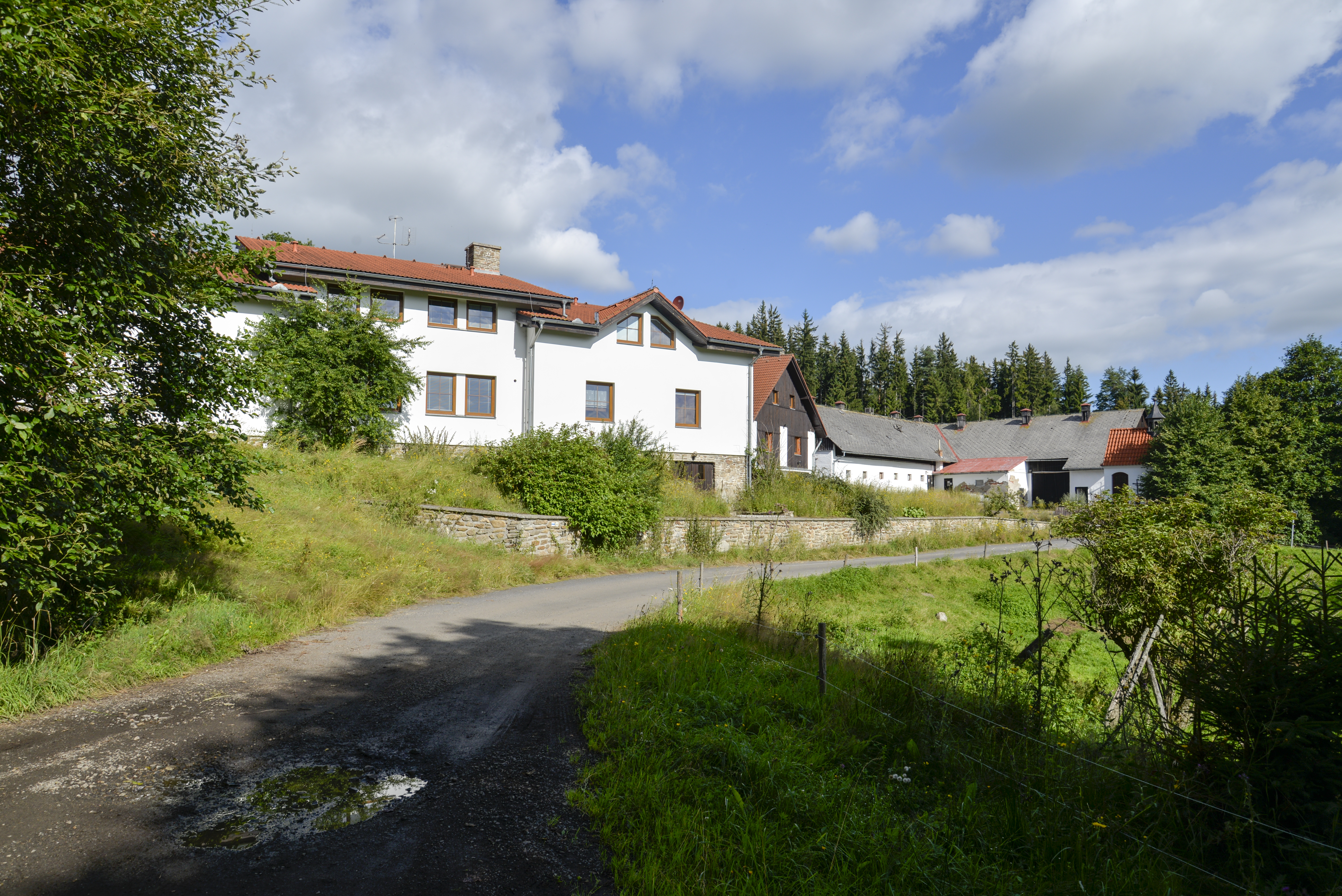 Dolní Kochánov settlement, part of in Klatovy District